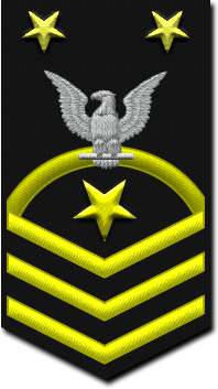 US Navy Fleet/Force Master Chief Petty Officer (FLTCM/FORCM) shoulder patch rate insignia